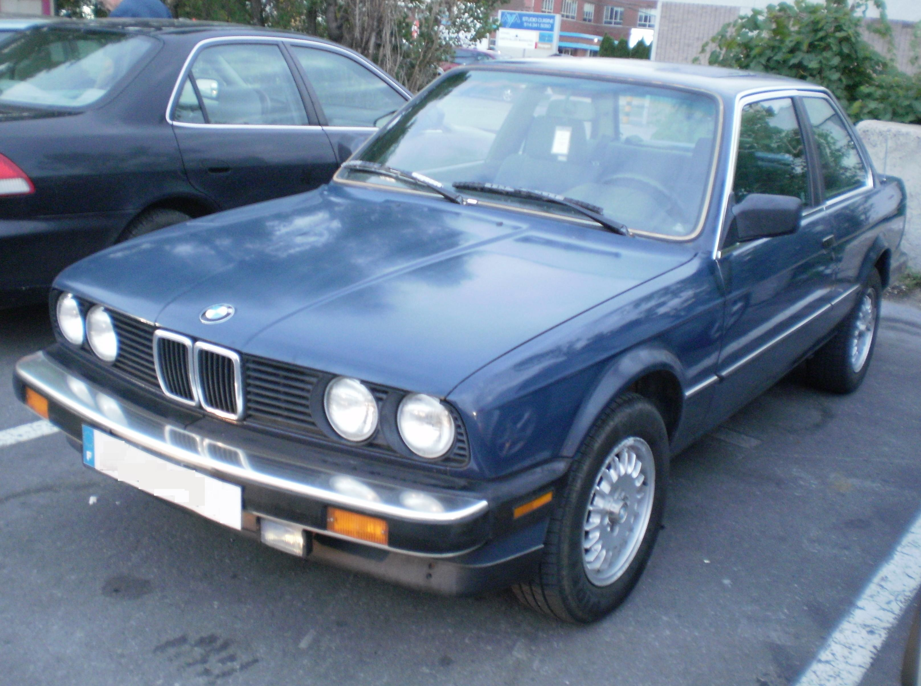 BMW 3-Series photographed in Montreal, Quebec, Canada at Gibeau Orange Julep.